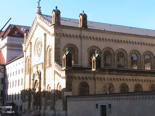 This is a photograph of an architectural monument.